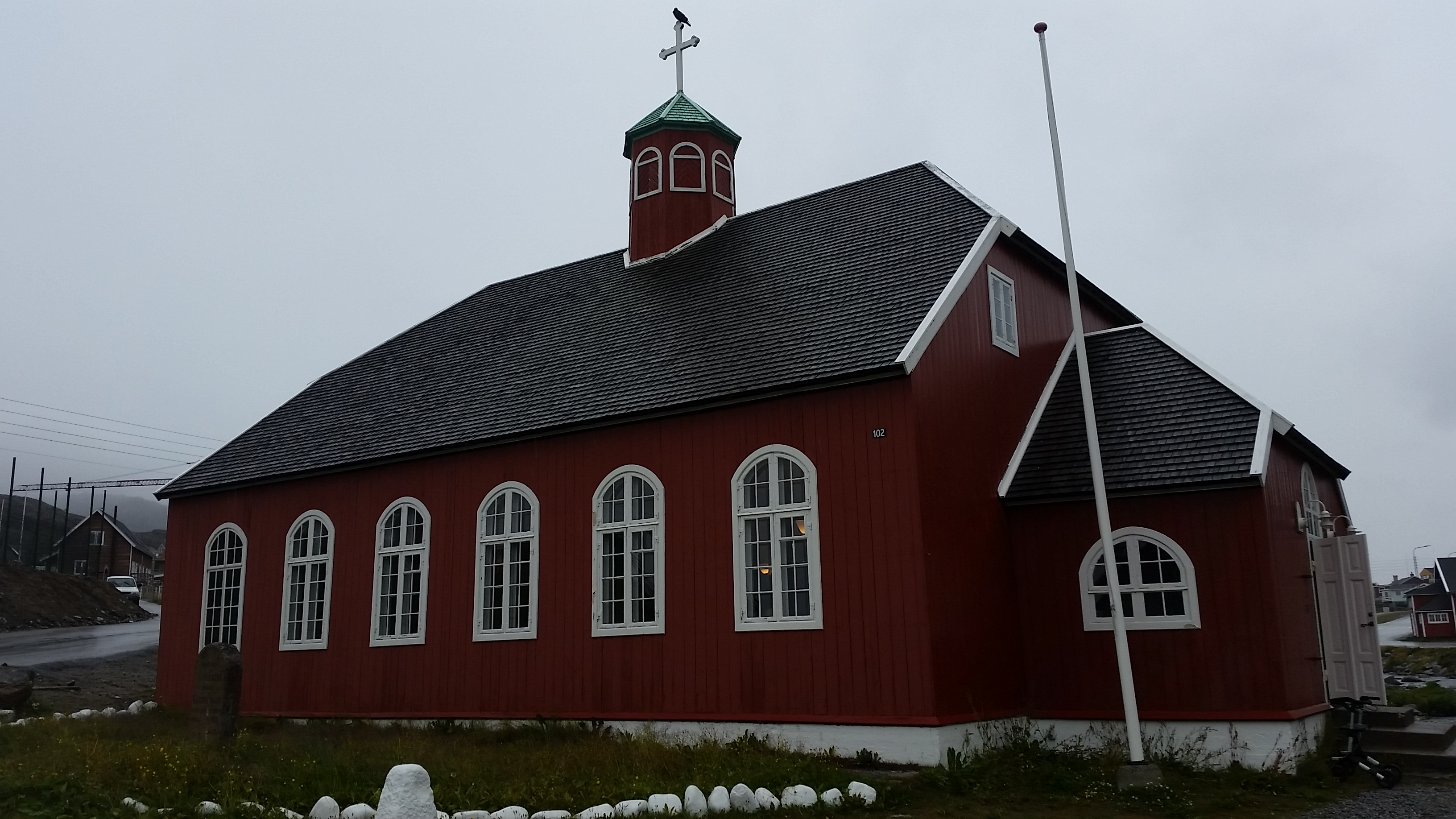 The old church of Qaqortoq.